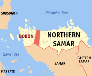 Map of Northern Samar showing the location of Bobon